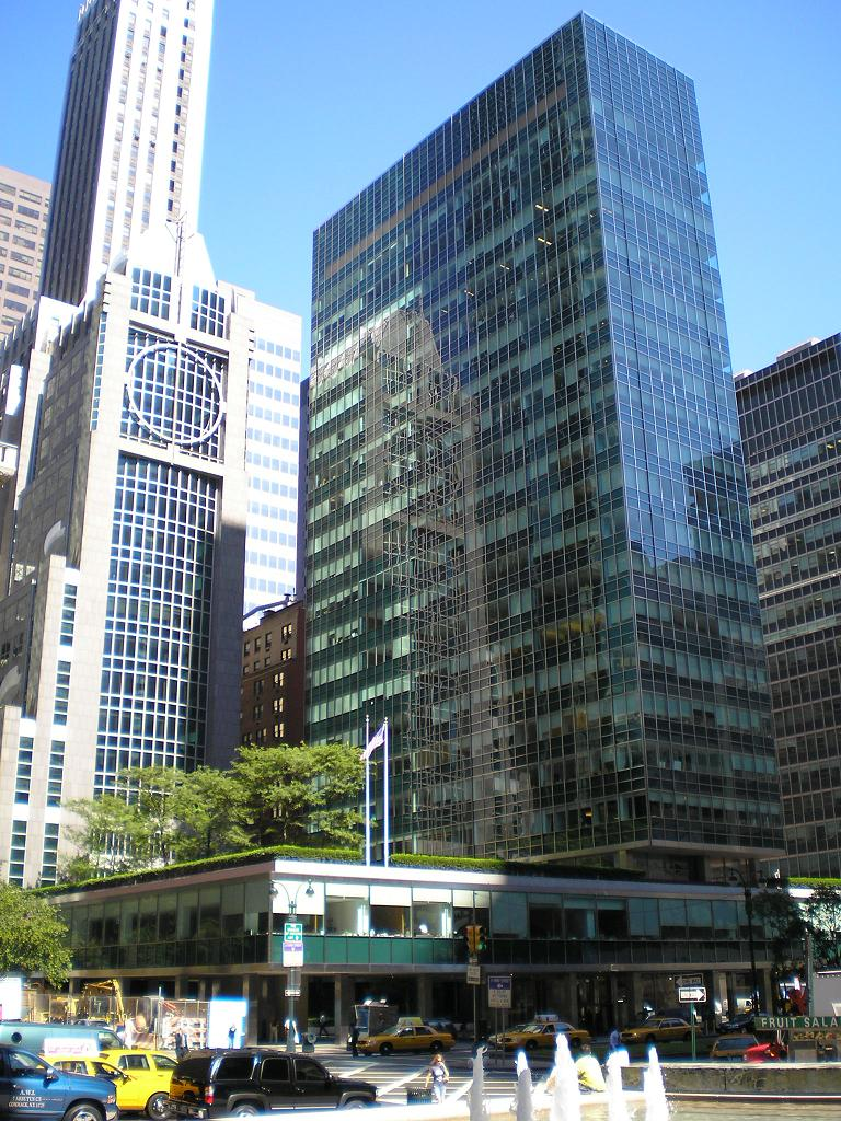 Lever House, New York City.